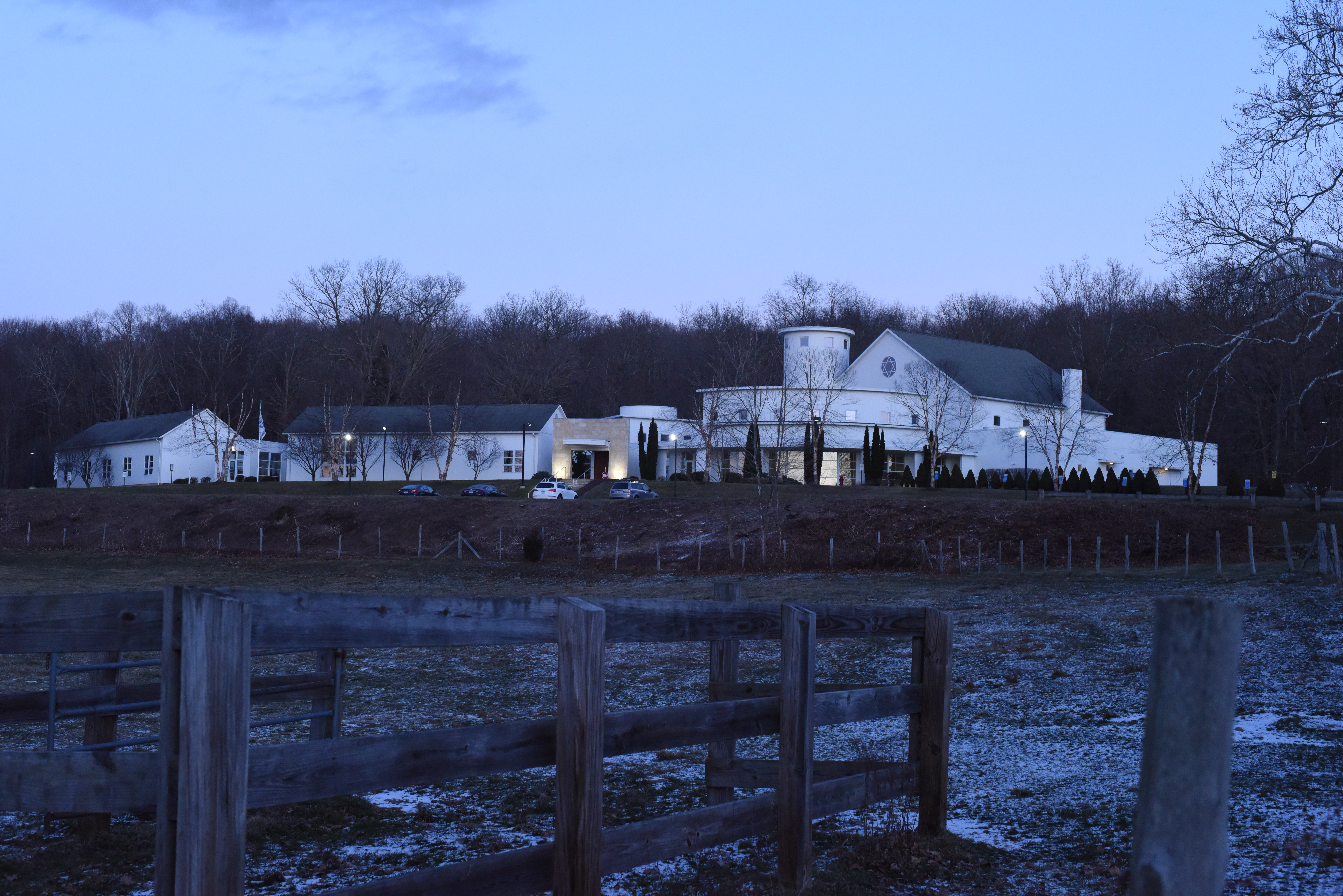 Southbury, CT.